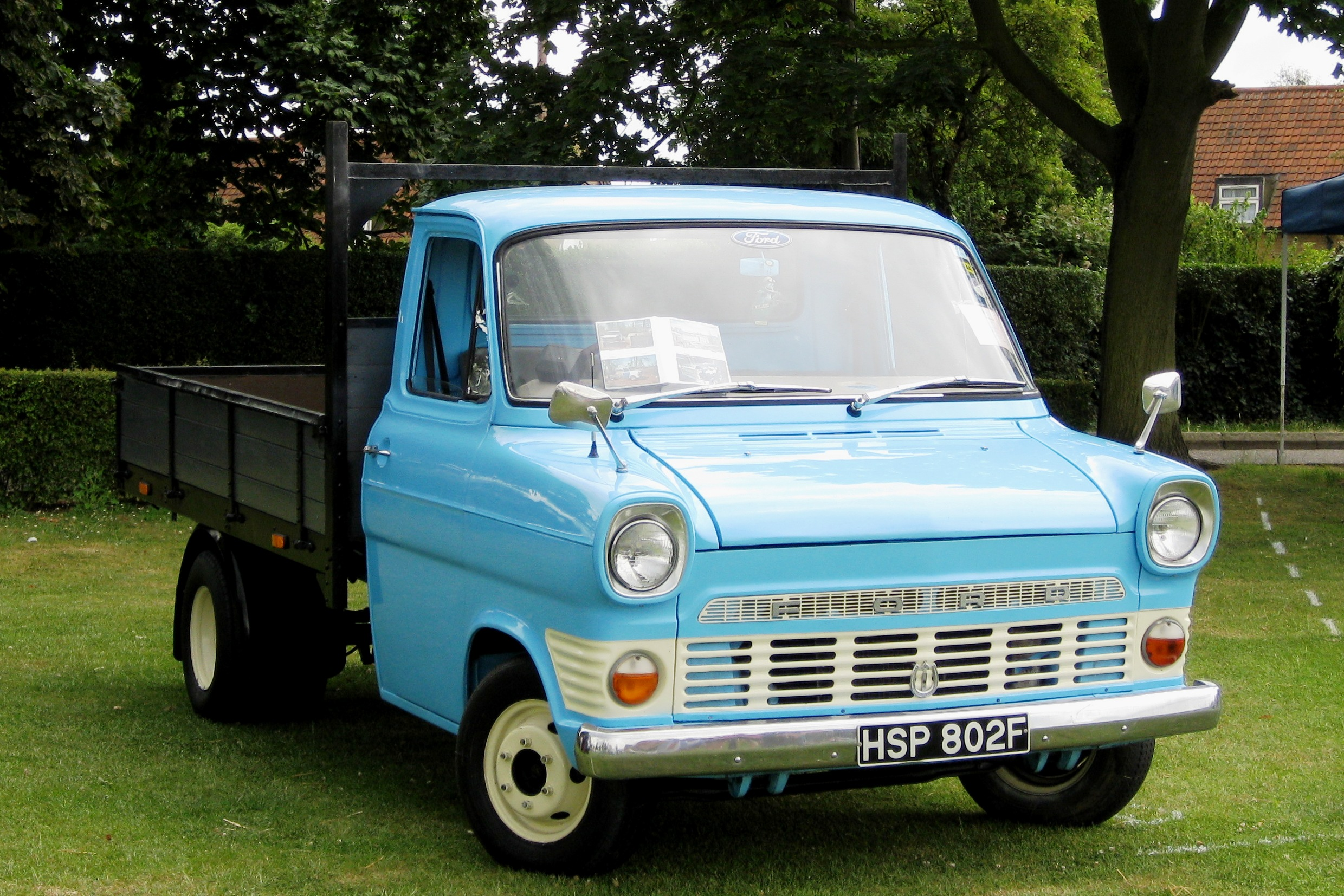 Ford Transit little truck at Maldon